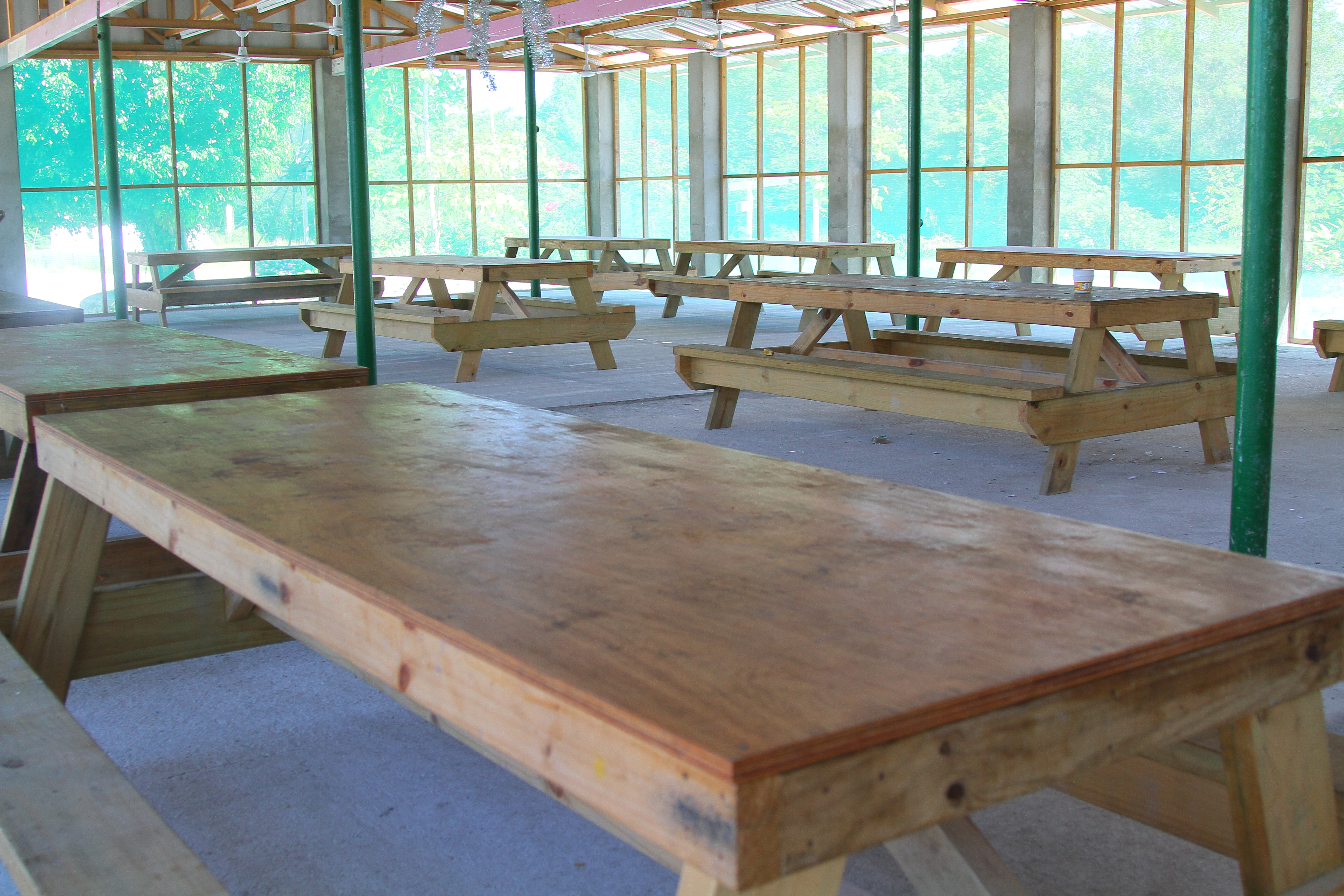 Dining Hall - Topside immigration processing compound, Nauru